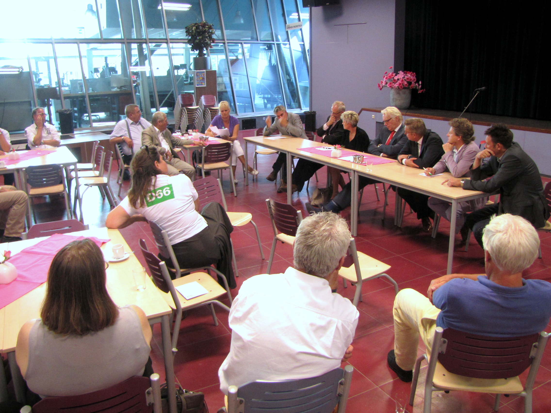 General elections in the Netherlands 2012. Achterhoek region.